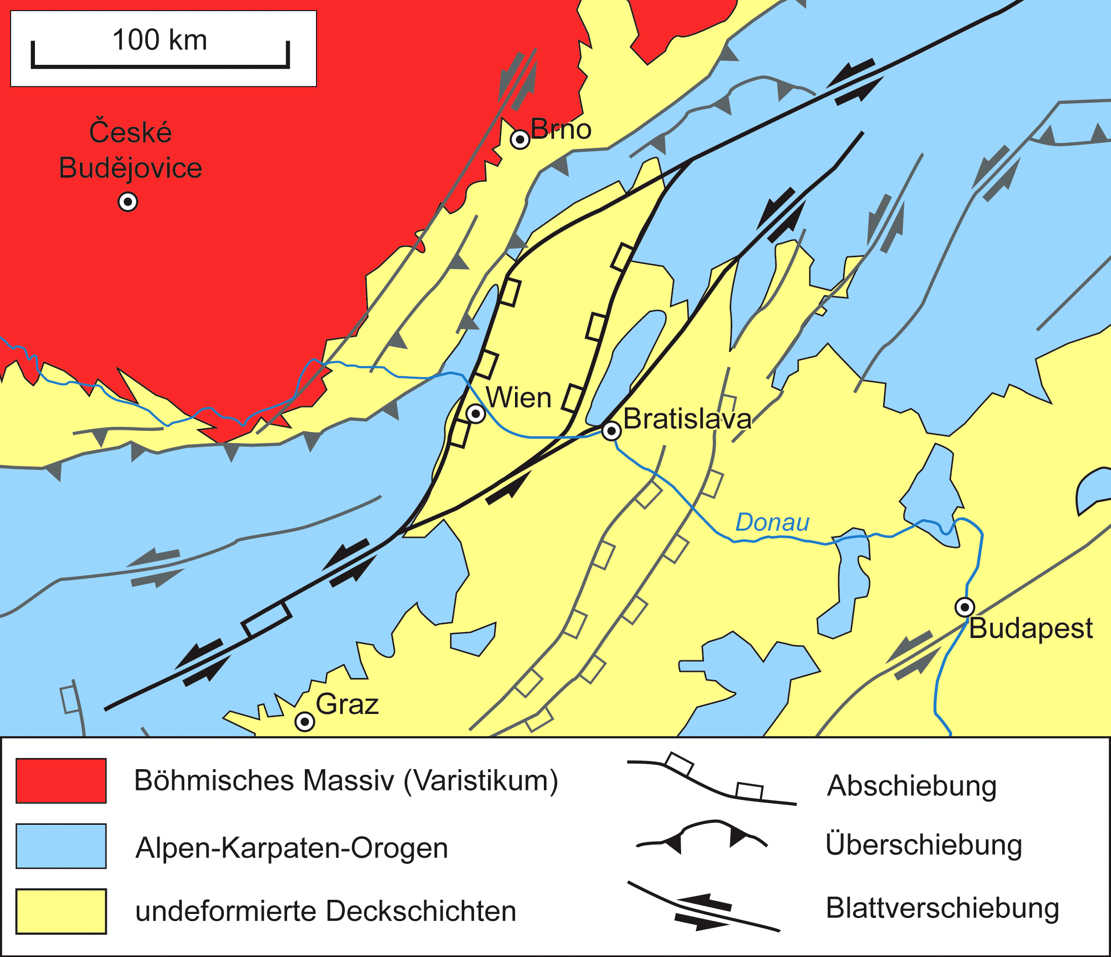 Simplified geological map of Vienna Basin and adjacent areas. The tectonic features immediately related to the Vienna Basin are shown in black; all other tectonic features are shown in grey. Redrawn from map (Abb. 3) in Piller et al. (1996)[1]